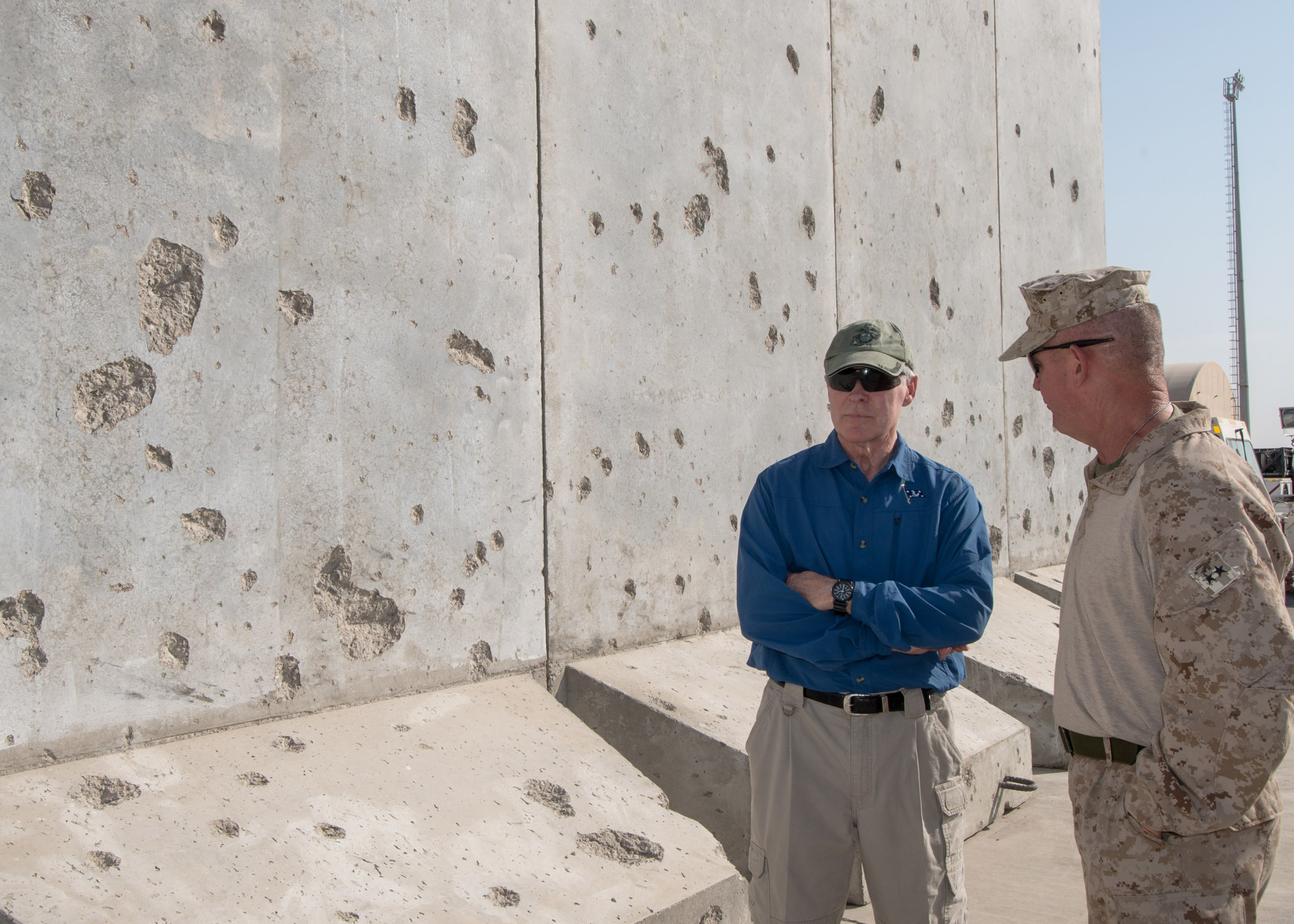 HELMAND PROVINCE, Afghanistan (Oct. 28, 2012) Secretary of the Navy (SECNAV) the Honorable Ray Mabus tours areas damaged in an insurgent attack at Camp Bastion, Afghanistan. Mabus met with senior leaders, Sailors and Marines to discuss security in the region and to thank them for their service and sacrifice. America's Sailors are Warfighters, a fast and flexible force deployed worldwide. Join the conversation on social media using #warfighting. (U.S. Navy photo by Chief Mass Communication Specialist Sam Shavers/Released) 121028-N-AC887-012 Join the conversation navylive.dodlive.mil